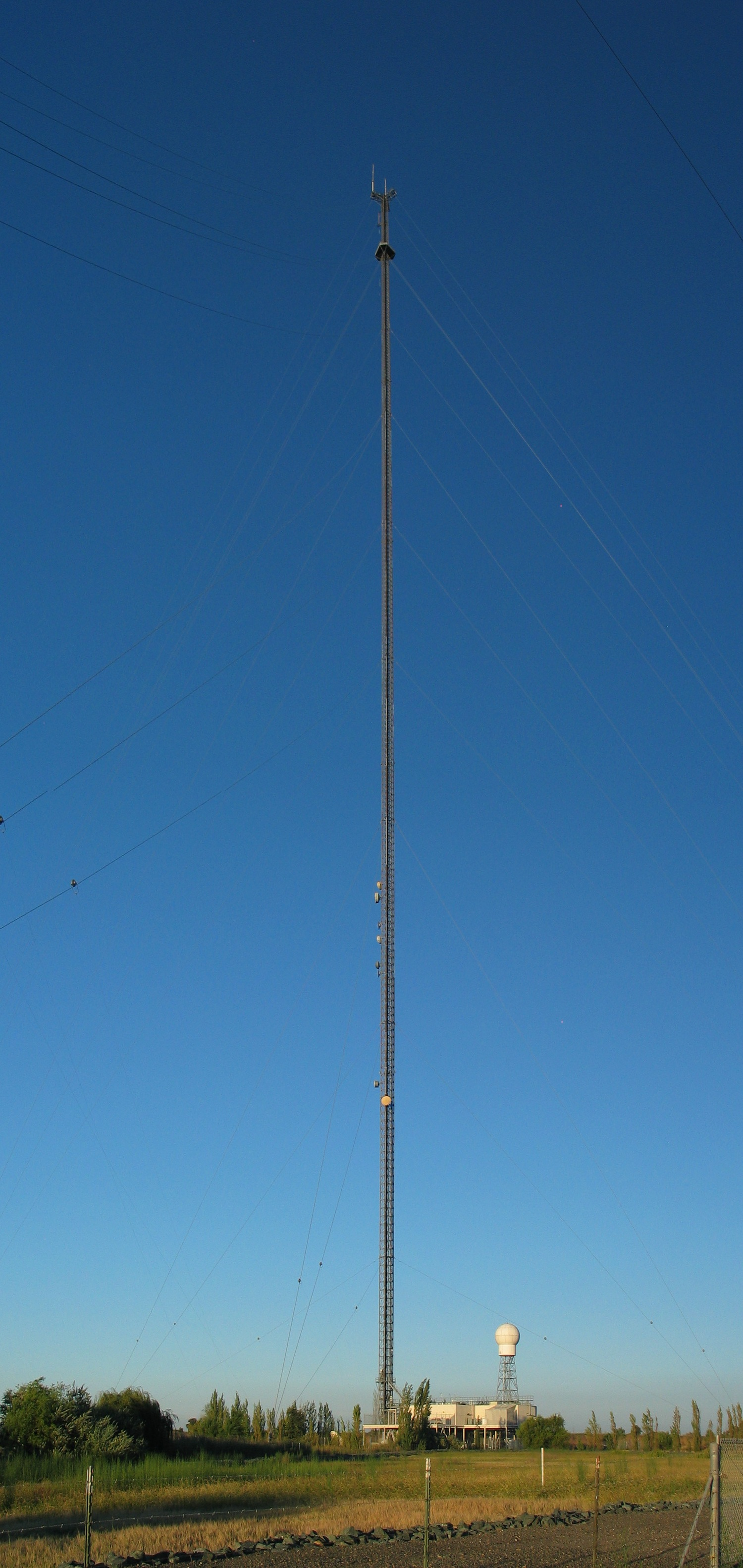 KXTV/KOVR Tower near Walnut Grove, California. Currently the third highes structure in the world.